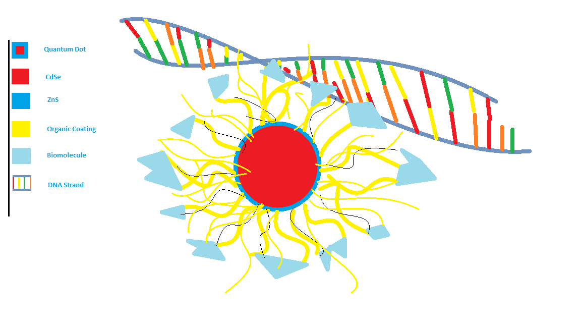 Schematic of a quantum dot coated with an organic protein bound to DNA (Image created in Paint).